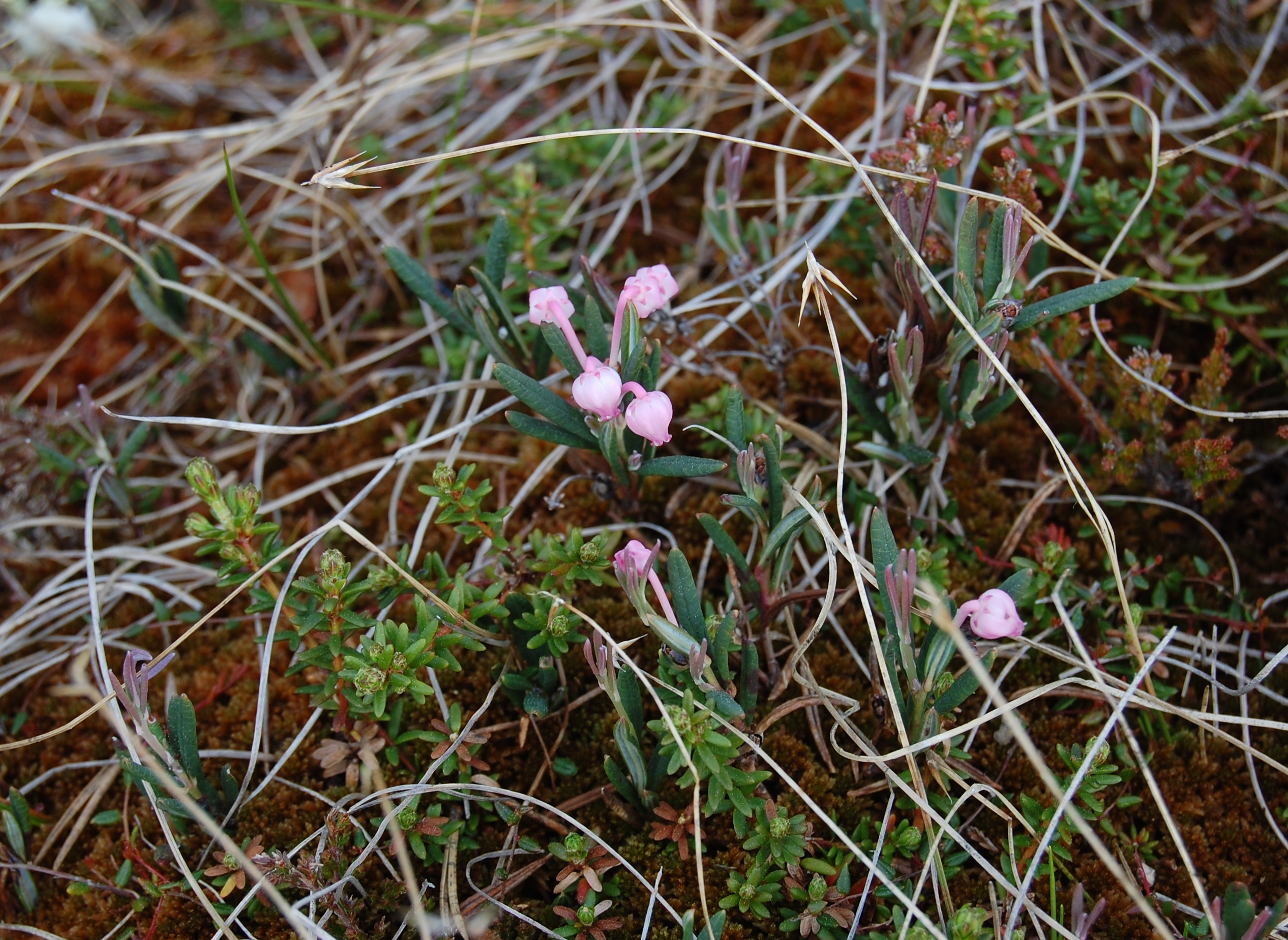 Andromeda polifolia flowering in nature reserve Koppången, Dalarna, Sweden